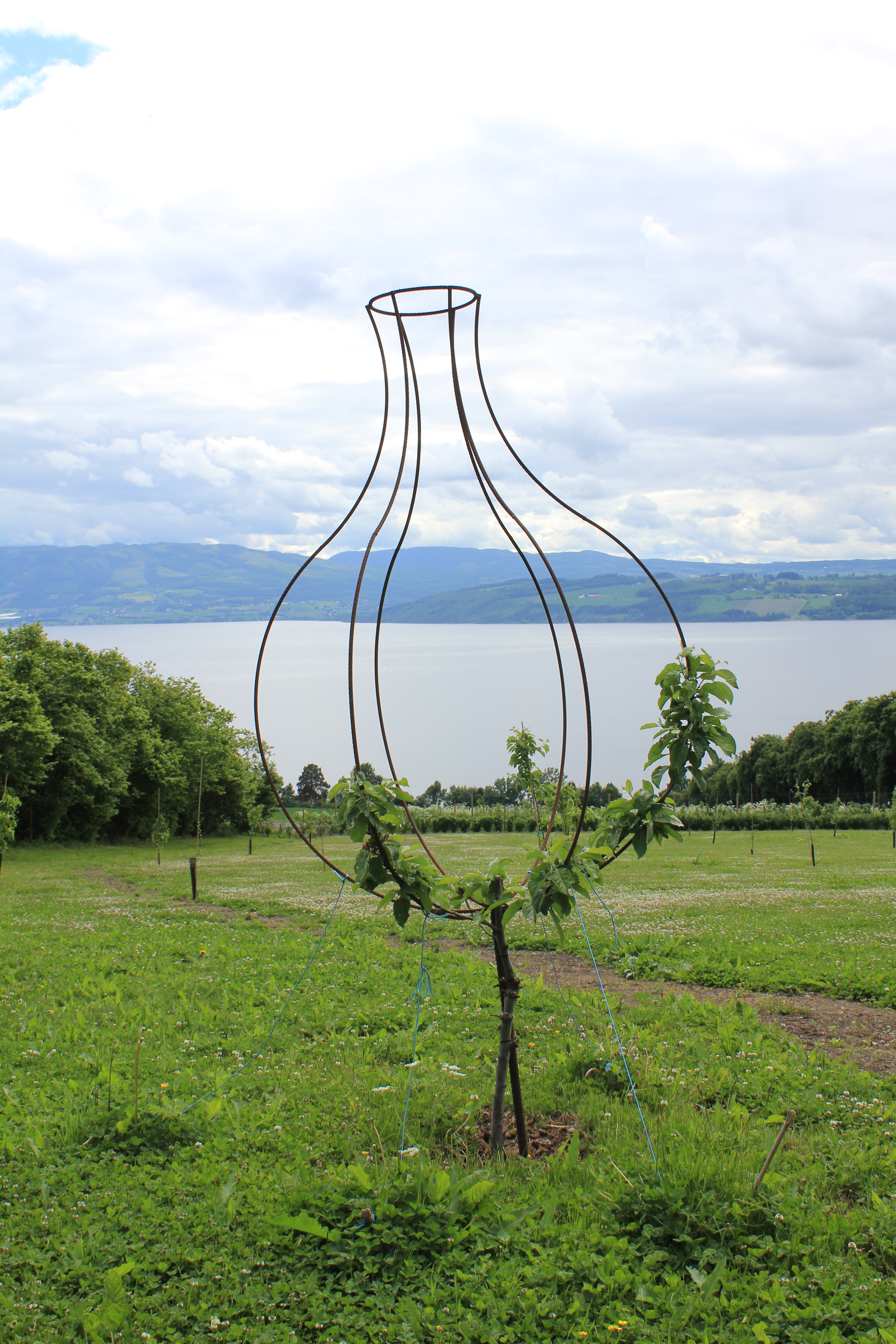 Fruit tree former.